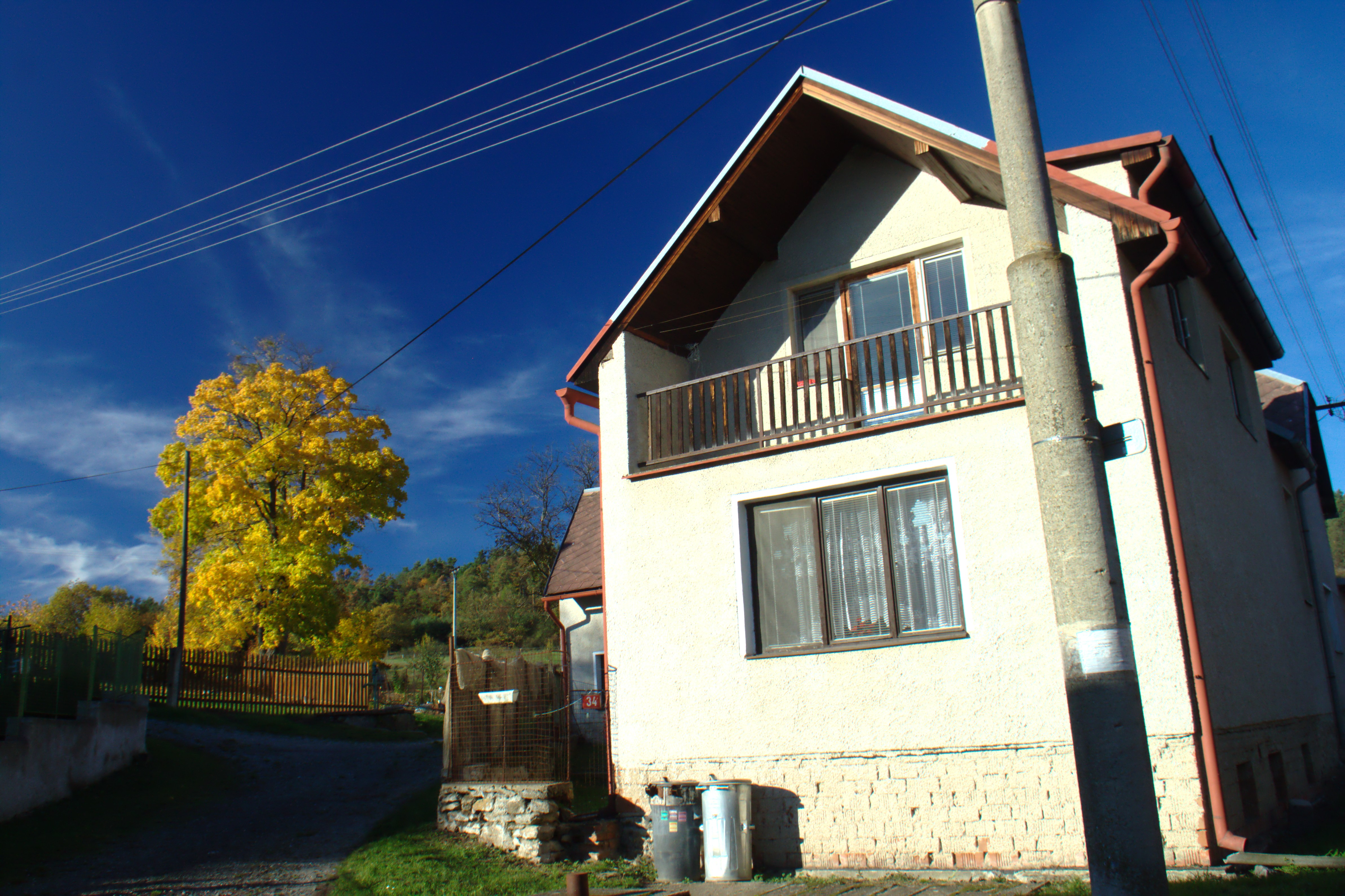 One of the buildings in the village of Bolechovice, Central Bohemia, CZ